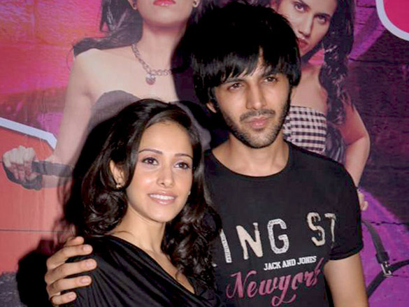 Kartik Tiwari with co-star Nushrat Bharucha at the success party of Pyaar Ka Punchnama.